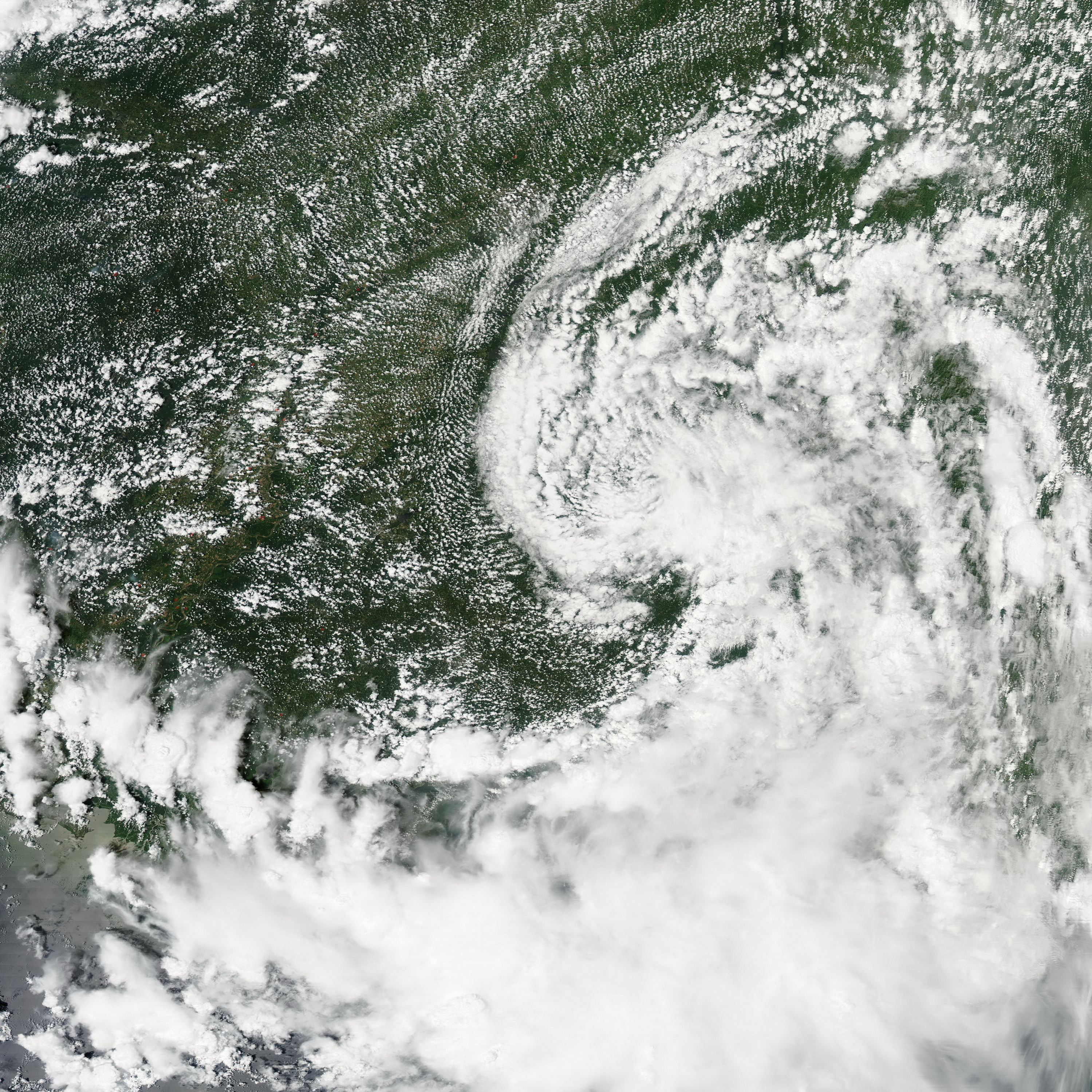 Tropical Depression Claudette inland Alabama.